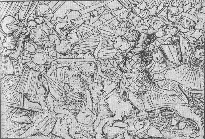 German reiter againts the Ottoman-Turks